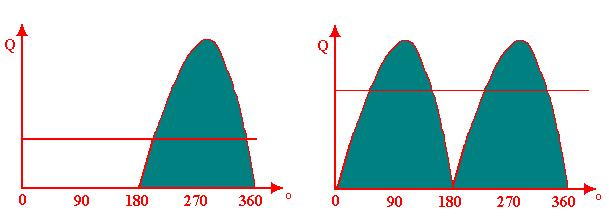 drawing shows piston pump delivery in relation with crank angle